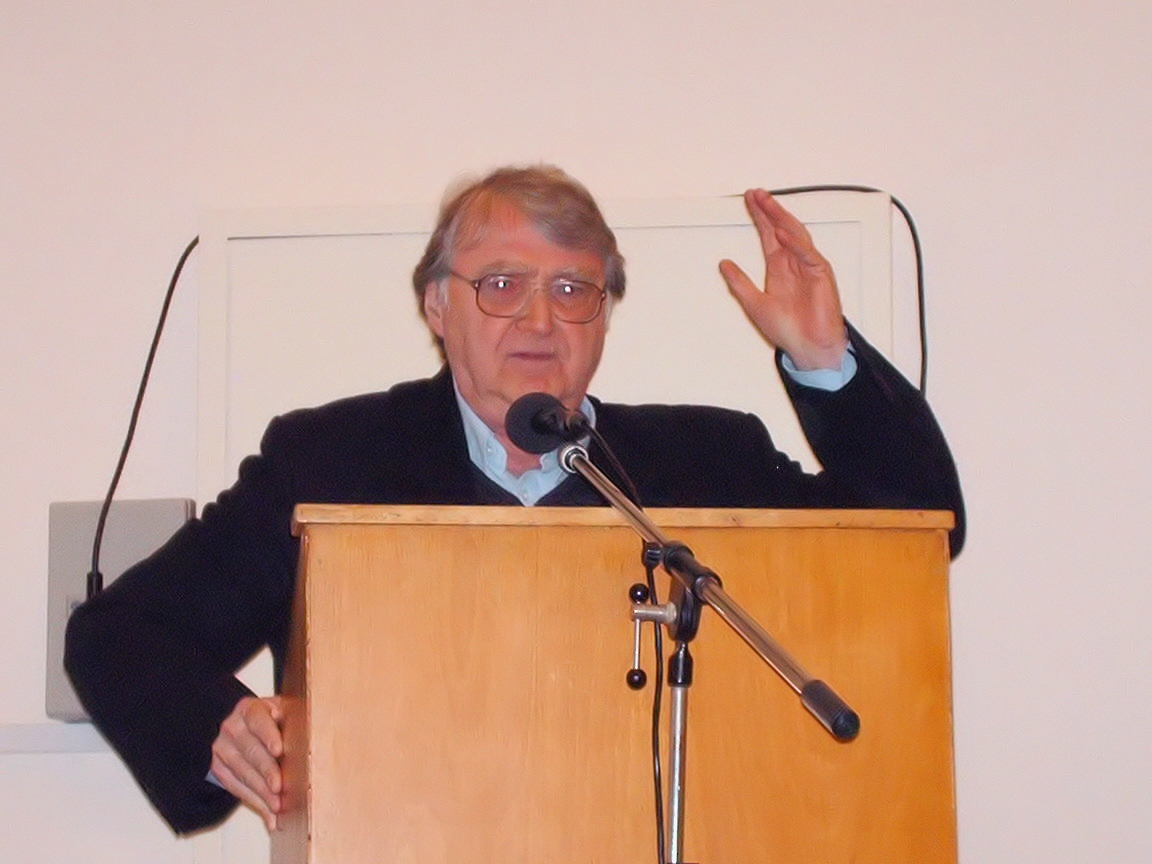 Frank Deppe check usage